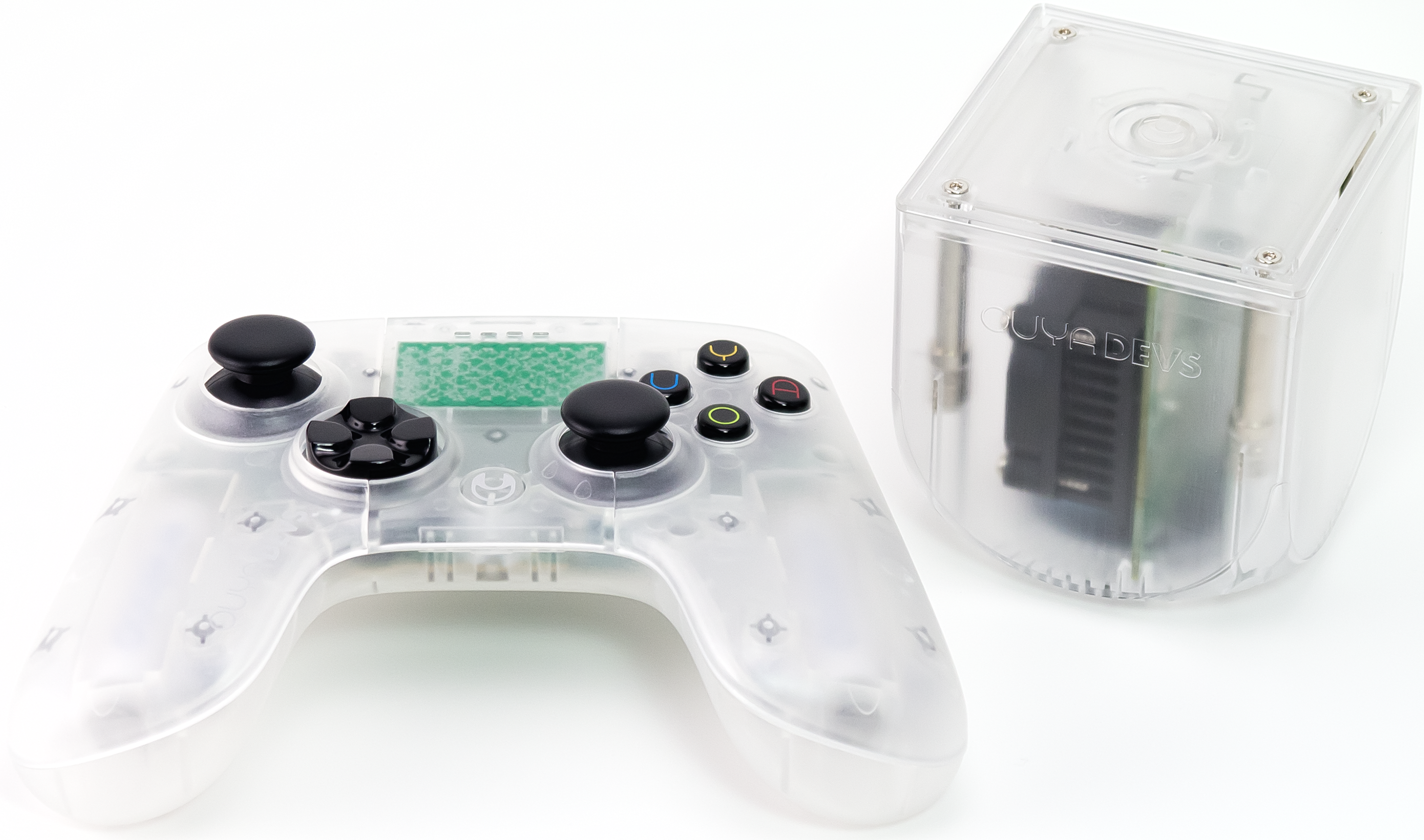 OUYA Developer Console and prototype controller